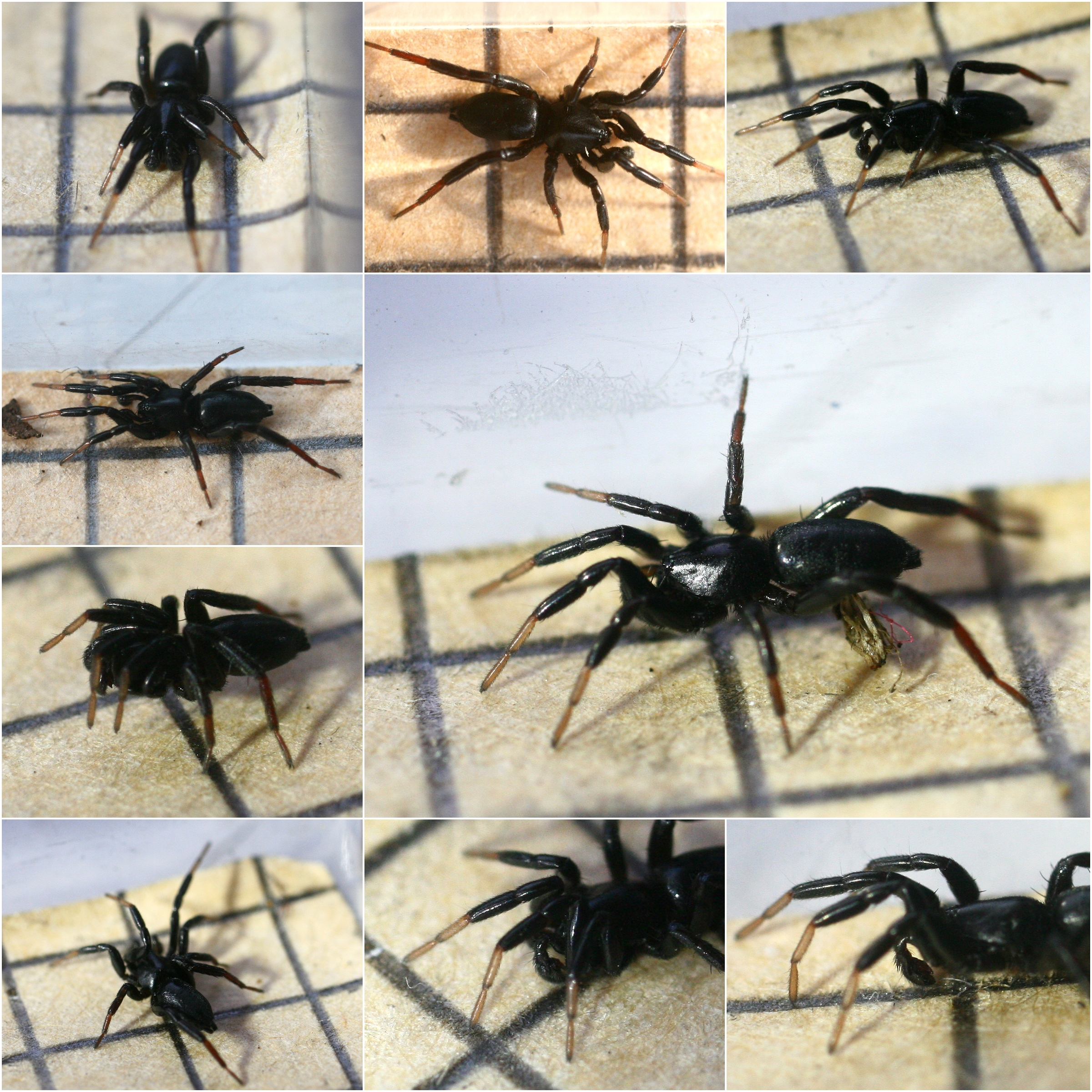 Drassyllus pusillus (=Zelotes pusillus) (Gnaphosidae). Running around on short vegetation at edge of heath, in one of the few dry places left! One of two males found. Length c.3.8mm. Legs with tarsi & metatarsi pale. Palps with tibia bearing lots of spines & hairs dorsally, and with bulb section projecting ventrally and forward (as in the lower-right 2 photos). Bricket Wood Common, Hertfordshire, England, 30th April 2012.